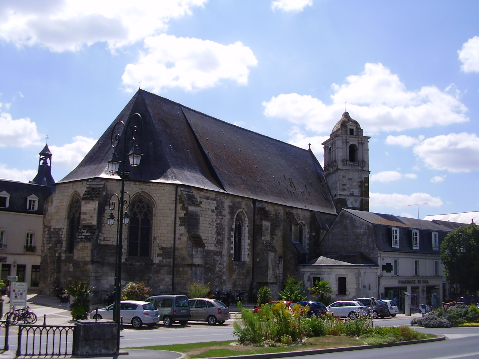 General view of Saint-Florentin church, in Amboise. View from the North-East